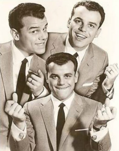 Publicity photo of Julius La Rosa for his 1957 summer replacement variety show.